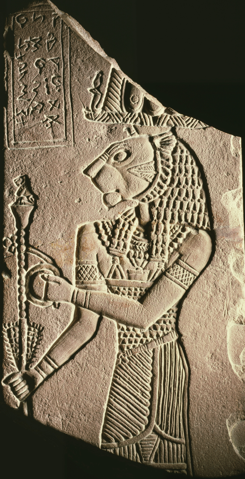 Kingdom, was part of a commemorative monument to King Tanyidamani. One side depicts the ruler in royal costume with ram's-head earrings, an Egyptian crown, and a scepter in his hand. An image of the lion-headed war- and fertility-god Apedemak appears on the other side. The deity holds a bundle of sorghum and a scepter topped with a small seated lion. The inscriptions are in Meroitic script and name the king and the god.